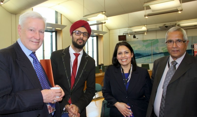 Param Singh MBE Parliament